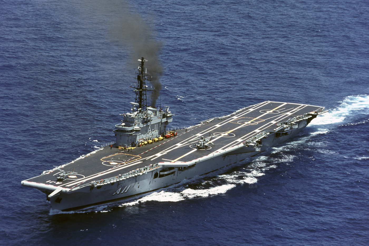 NAeL Minas Gerais (A11) was the first Brazilian aircraft carrier. She was in service between 1960 and 2001, and scrapped in India in 2004. By then the shipo was replaced by NAe São Paulo (A12), the former FNS Foch of the French Navy. The Minas Gerais was the last of the Colossus-class and launched by Swan Hunter (England) as HMS Vengeance in February 1944. She was completed too late to see action in WW2. After the war HMS Vengeance (R71) was used by the Royal Navy and served in the Australian Navy from 1952 to 1955. After a mayor refit in Rotterdam she sailed to her new owner, the Brazilian Navy. When the ship left service she was the oldest aircraft carrier in the world and the largest navy ship south of the equator.